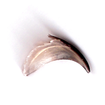 Cat's claw